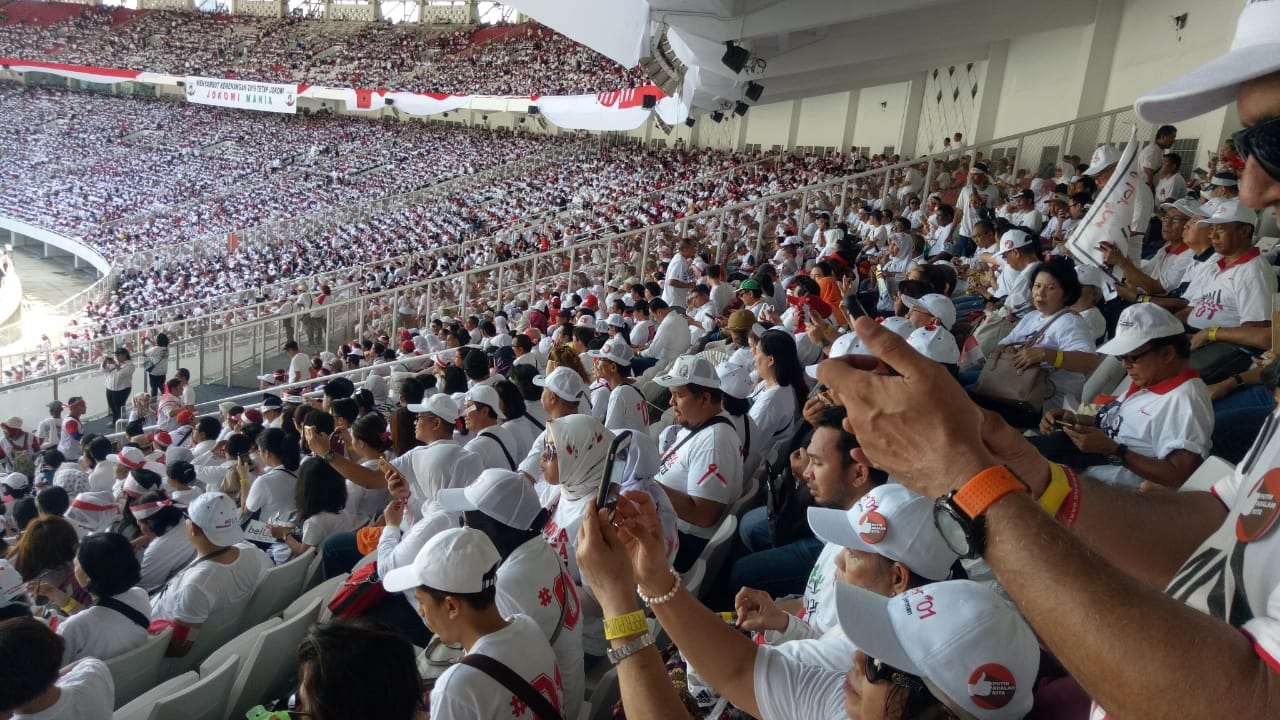 Supporters of Jokowi Ma'ruf Amin rallying in a campaign in the GBK stadion.